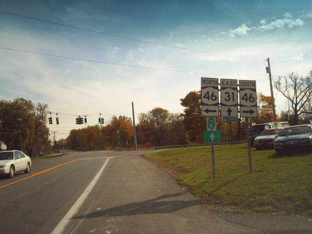 Eastbound New York State Route 31 at New York State Route 46 in Verona.